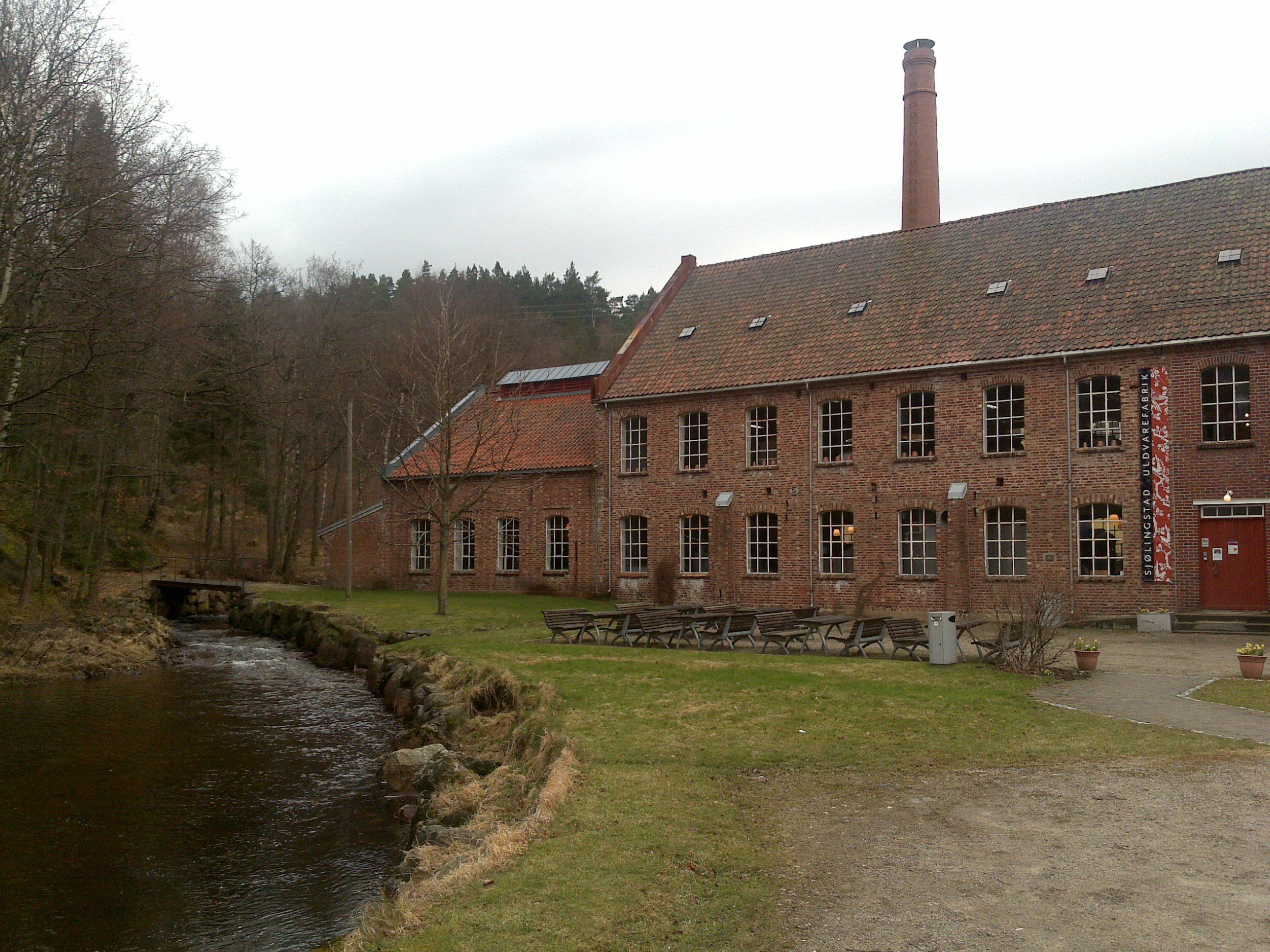 Sjölingstad Uldvarefabrik (Woolen factory), Mandal (Norway)